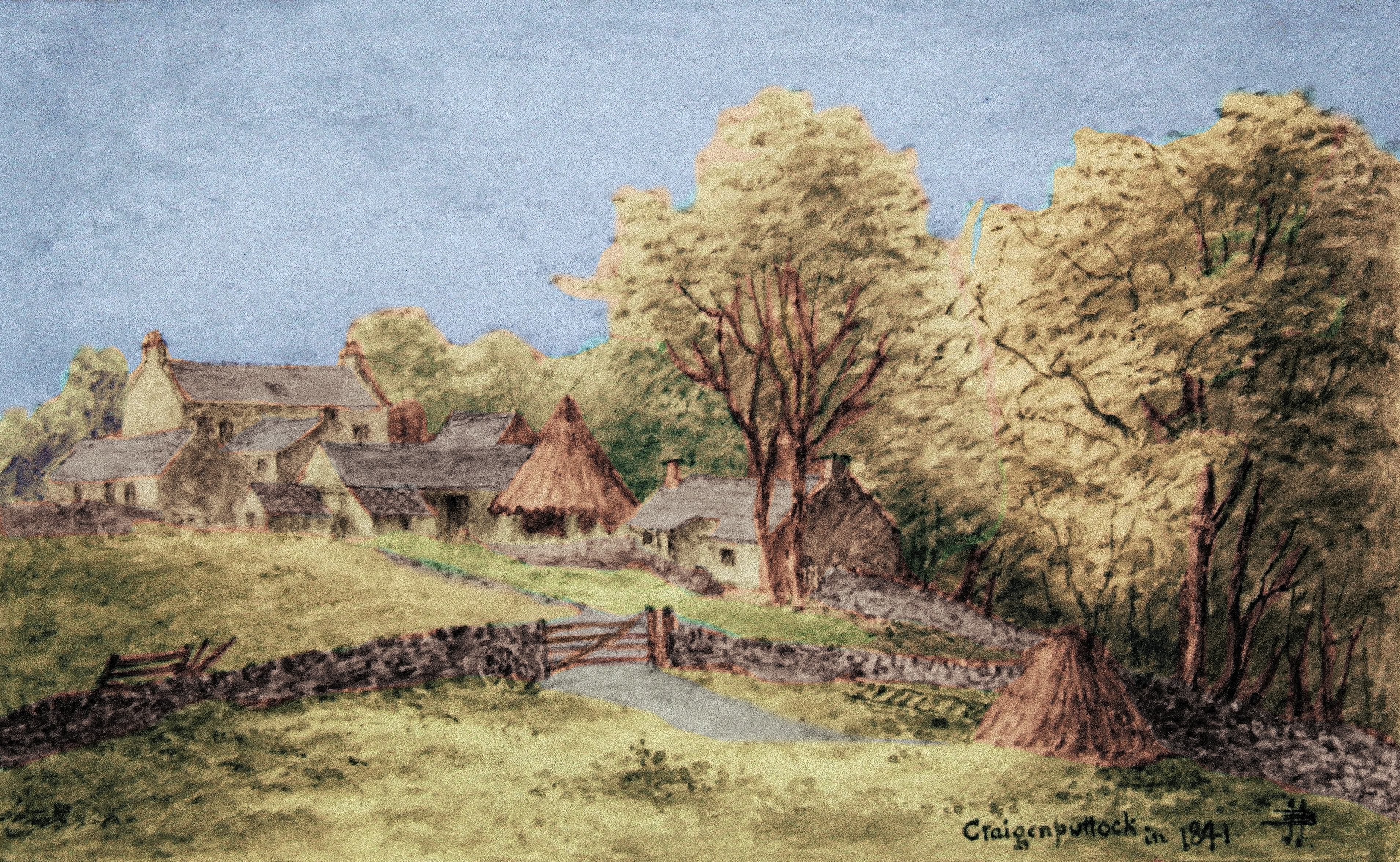 Drawing by Allingham of the rear view of Craigenputtock in 1891